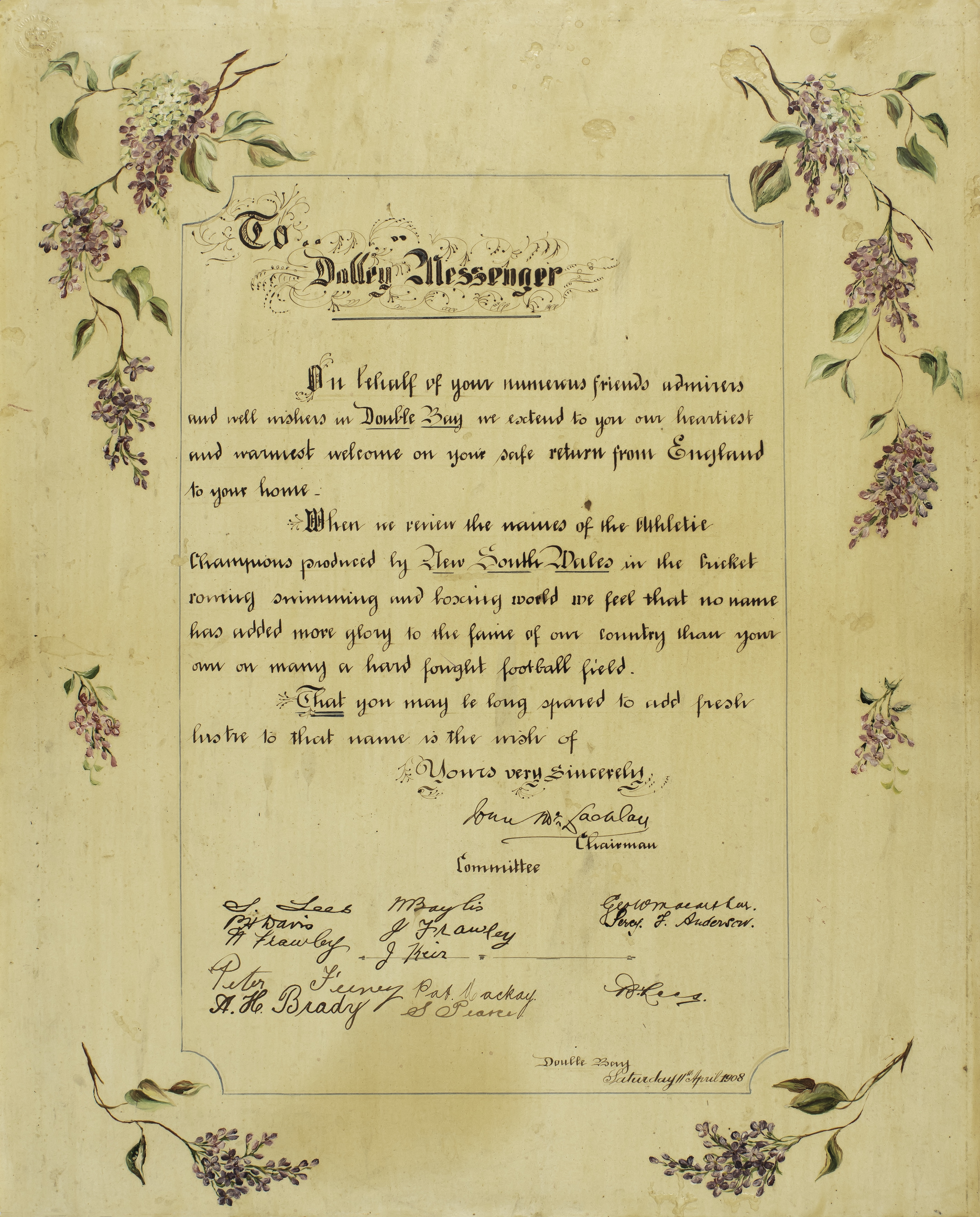 This Scroll was presented to Dally Messenger at a Civic Reception in Sydney/Double Bay on his return from the All Blacks (All Golds) 1907-1908 "Rugby League" tour of Great Britain. It contains these words "When we review the names of the Athletic Champions produced by New South Wales in the cricket Rowing swimming and boxing world we feel that no name has added more glory to the fame of our country than your own." (April 11,1908)